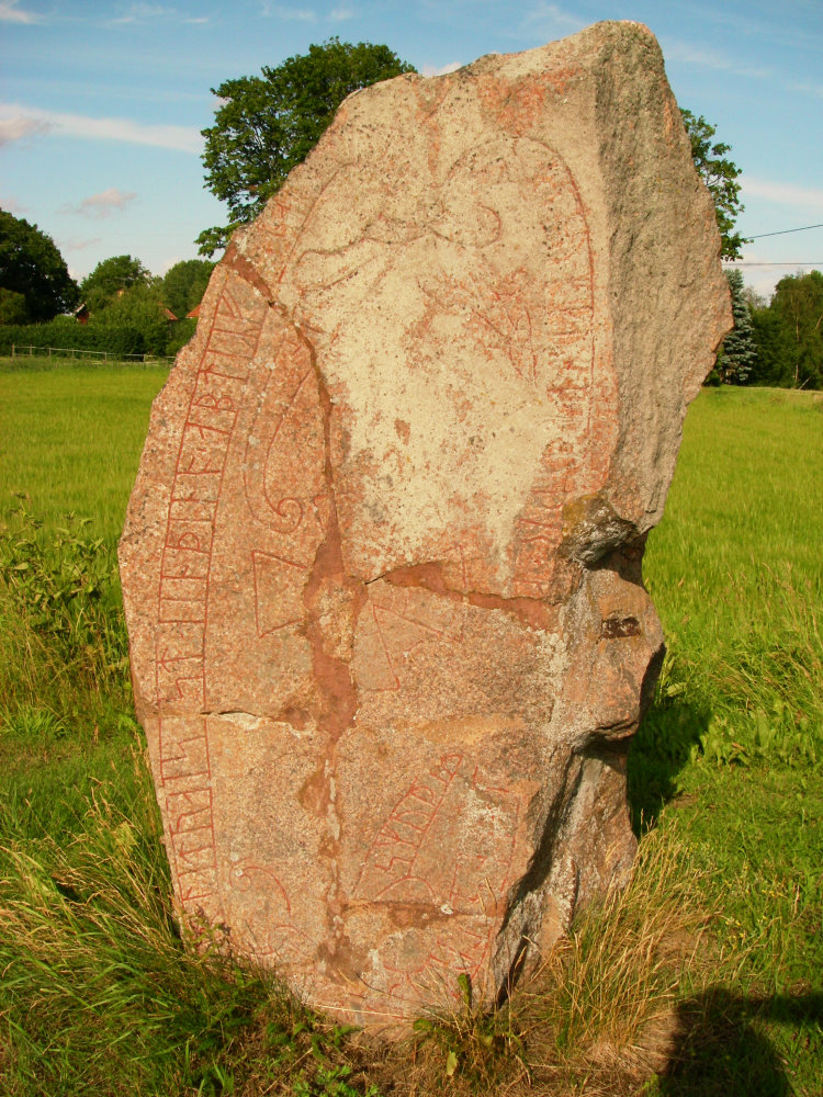 runic stone Upplands runinskrifter U1145